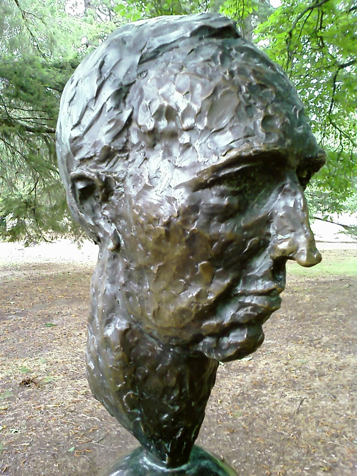 Bust of the twenty-fourth Prime Minister of Australia Paul Keating by political cartoonist, caricaturist and sculptor Peter Nicholson located in the Prime Minister's Avenue in the Ballarat Botanical Gardens. Photo taken by WikiTownsvillian